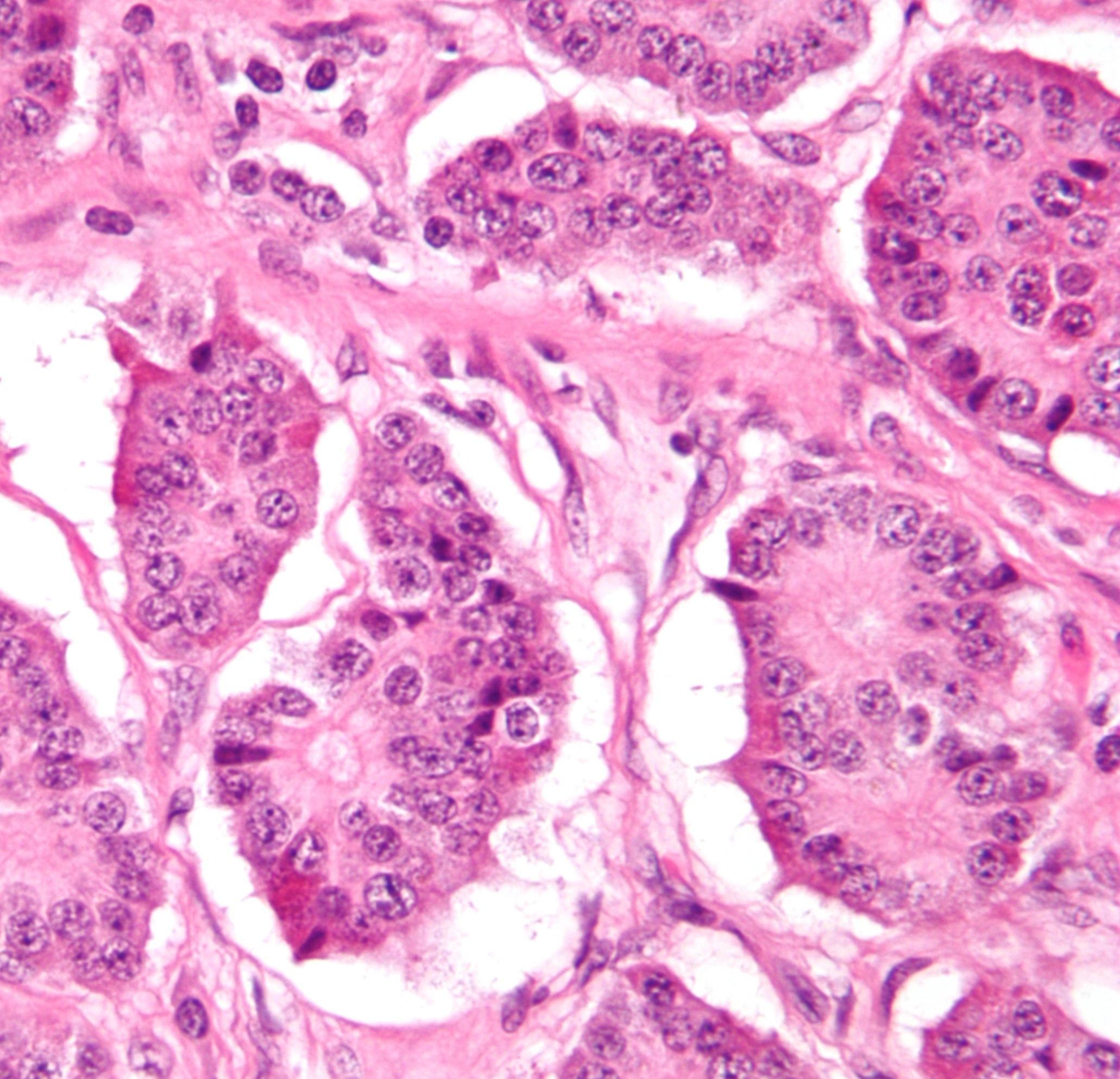 High magnification micrograph of a small intestine neuroendocrine tumour. H&E stain. This image tumours . Related images Low mag. Intermed. mag. High mag. High mag. (cropped)